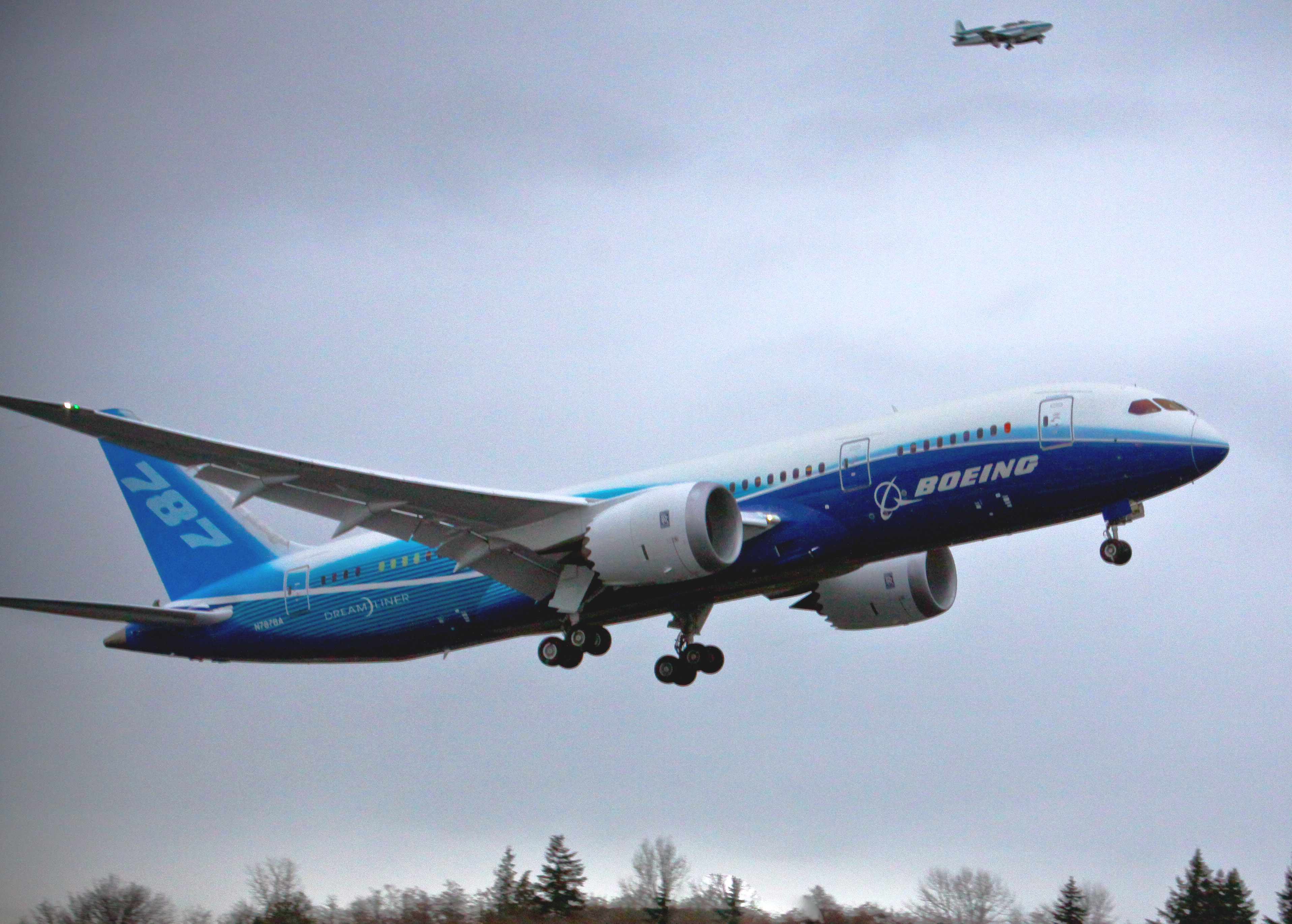 First flight of Boeing 787 Dreamliner. In background one of Boeing's Lockheed T-33_Shooting_Star chase planes.